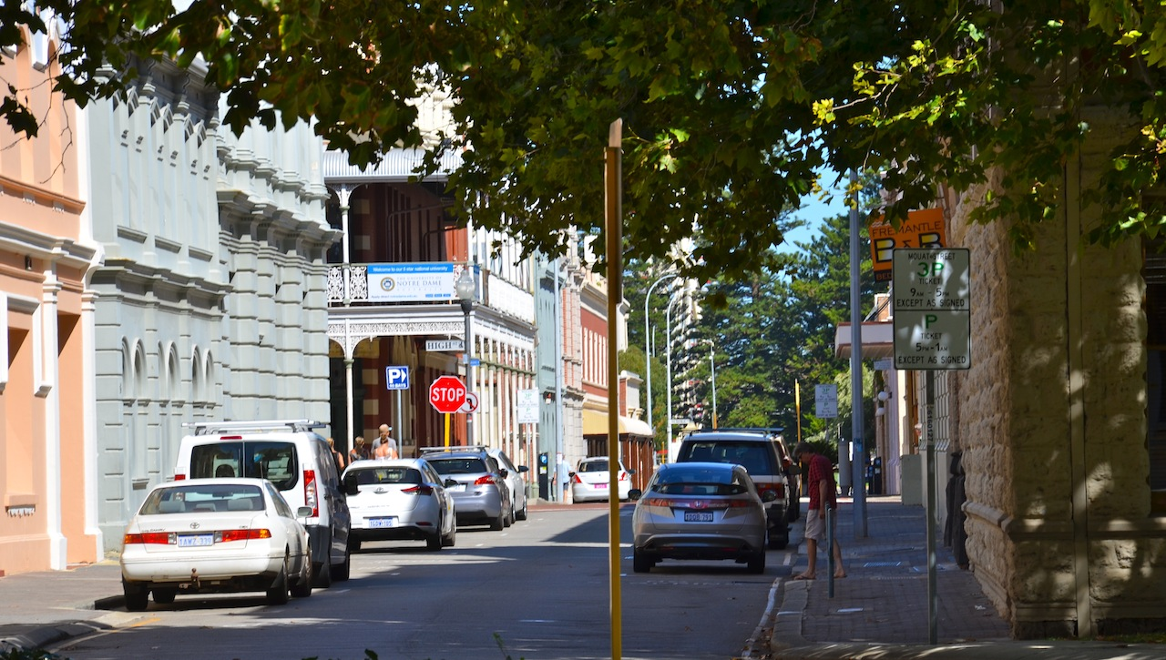 Looking down Mouat Street southwards towards High Street, Fremantle, Western Australia